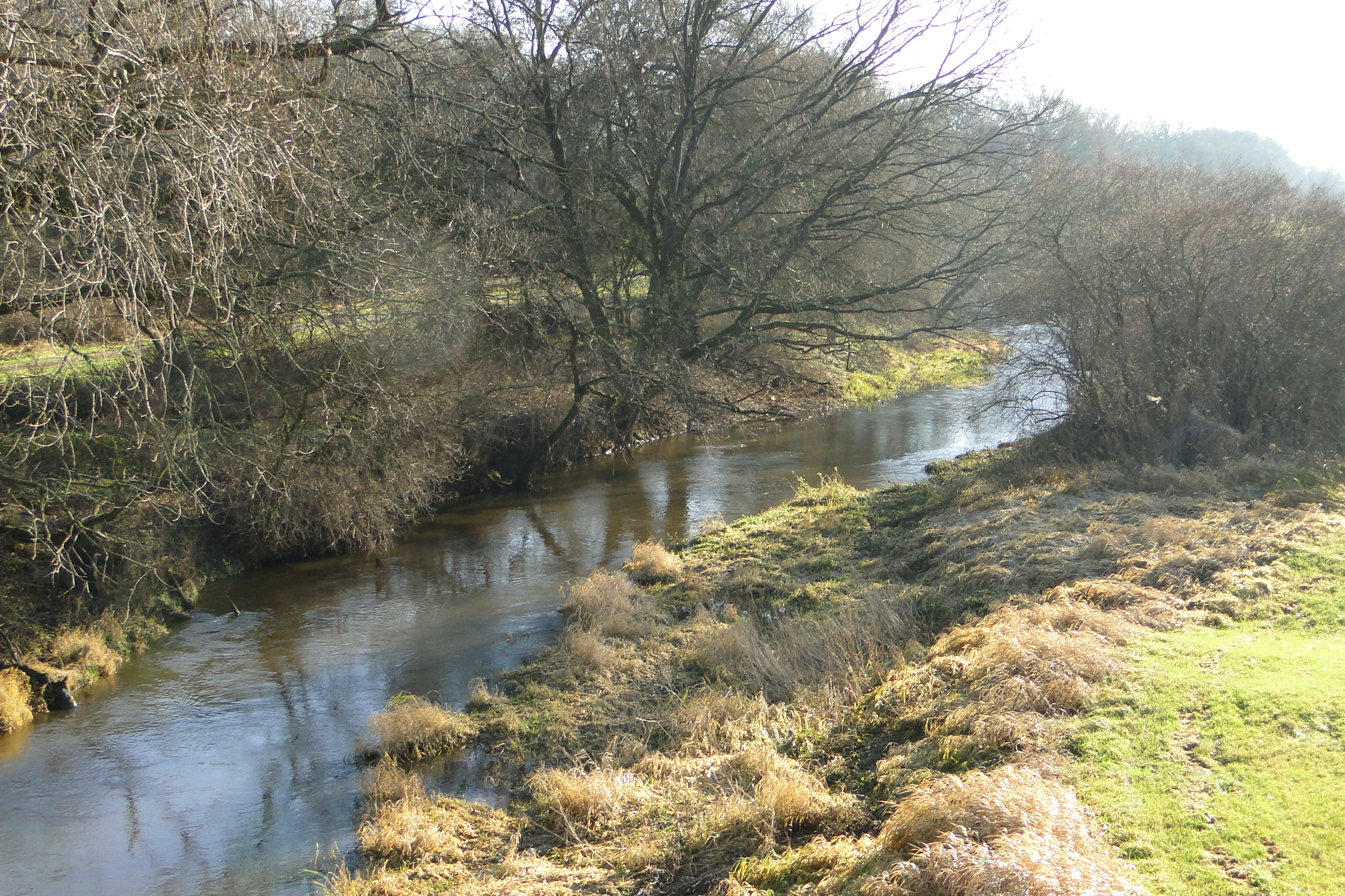 Nuthe river at railway bridge over the Elbe river near Barby, Salzlandkreis, Sachsen-Anhalt, Deutschland